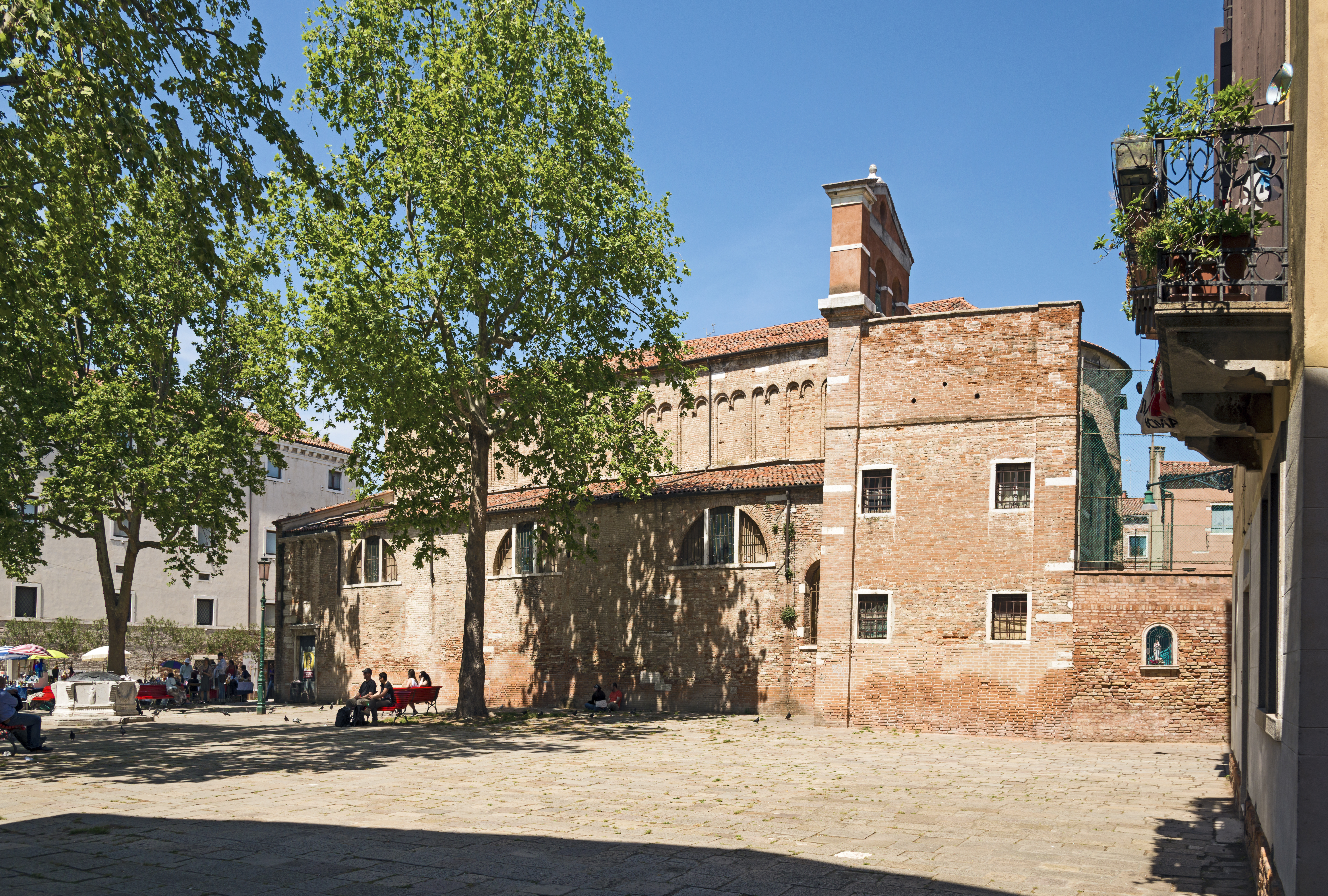 Church Sant'Agnese in Venice - View from the eponymous campo.